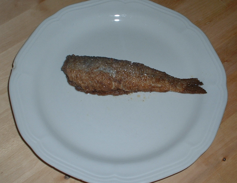 Brathering